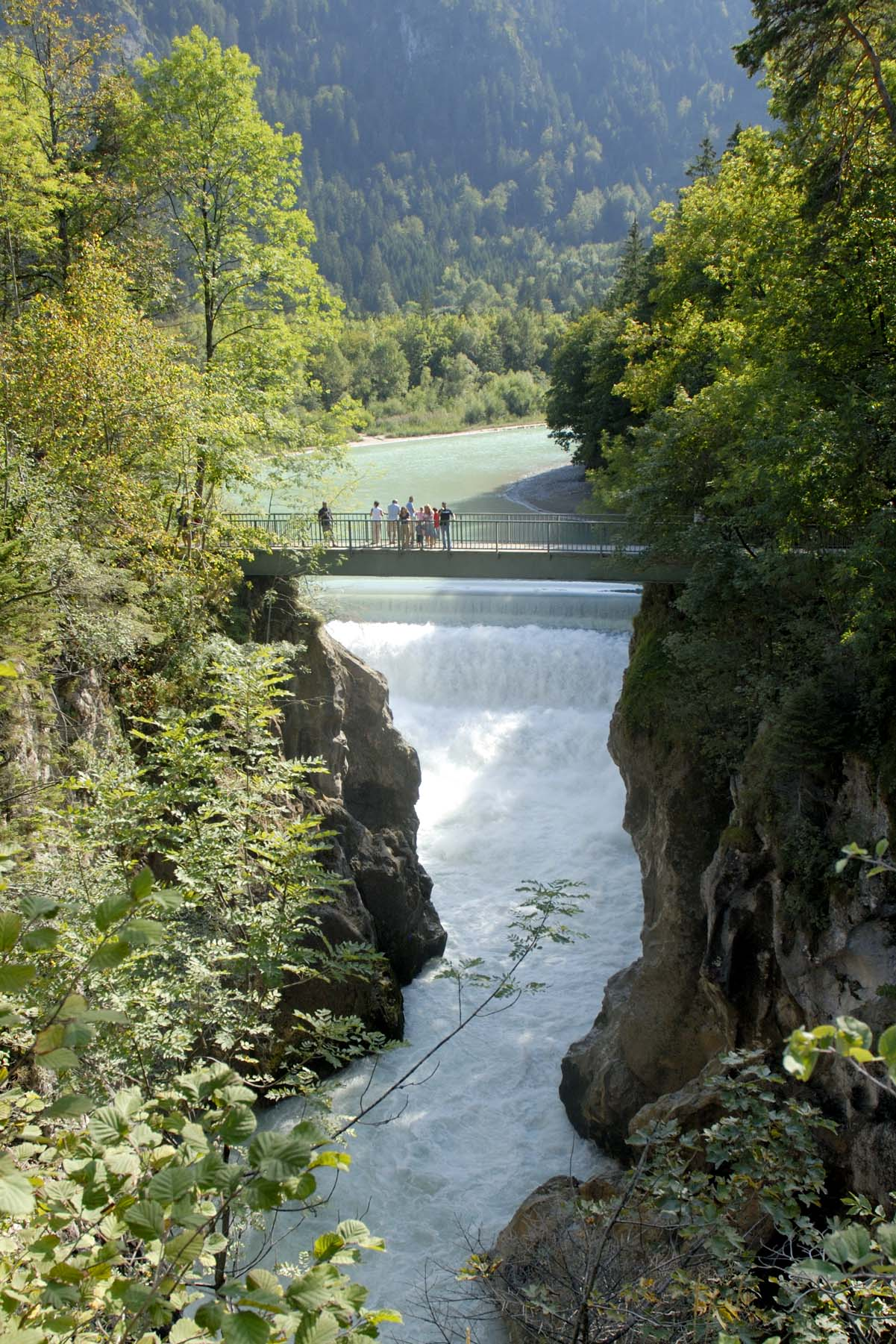 waterfall of lech river, Füssen, Germany